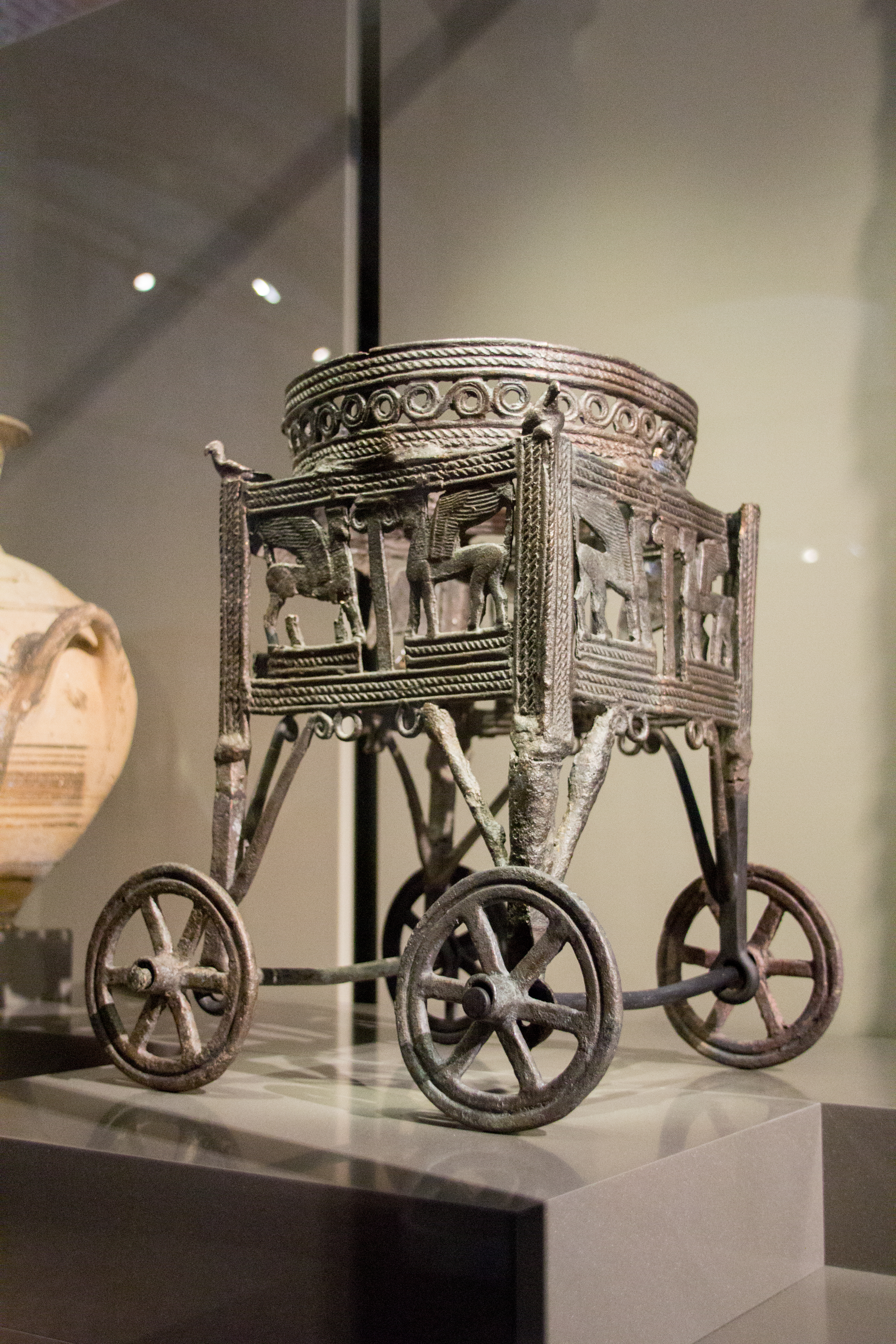 Neues Museum, Berlin, Germany. "Kesselwagen Wheeled stand for a couldron. Bronze 12.-11.Jh.v.Chr. Vermutlich Kition, Distr. Larnaka"